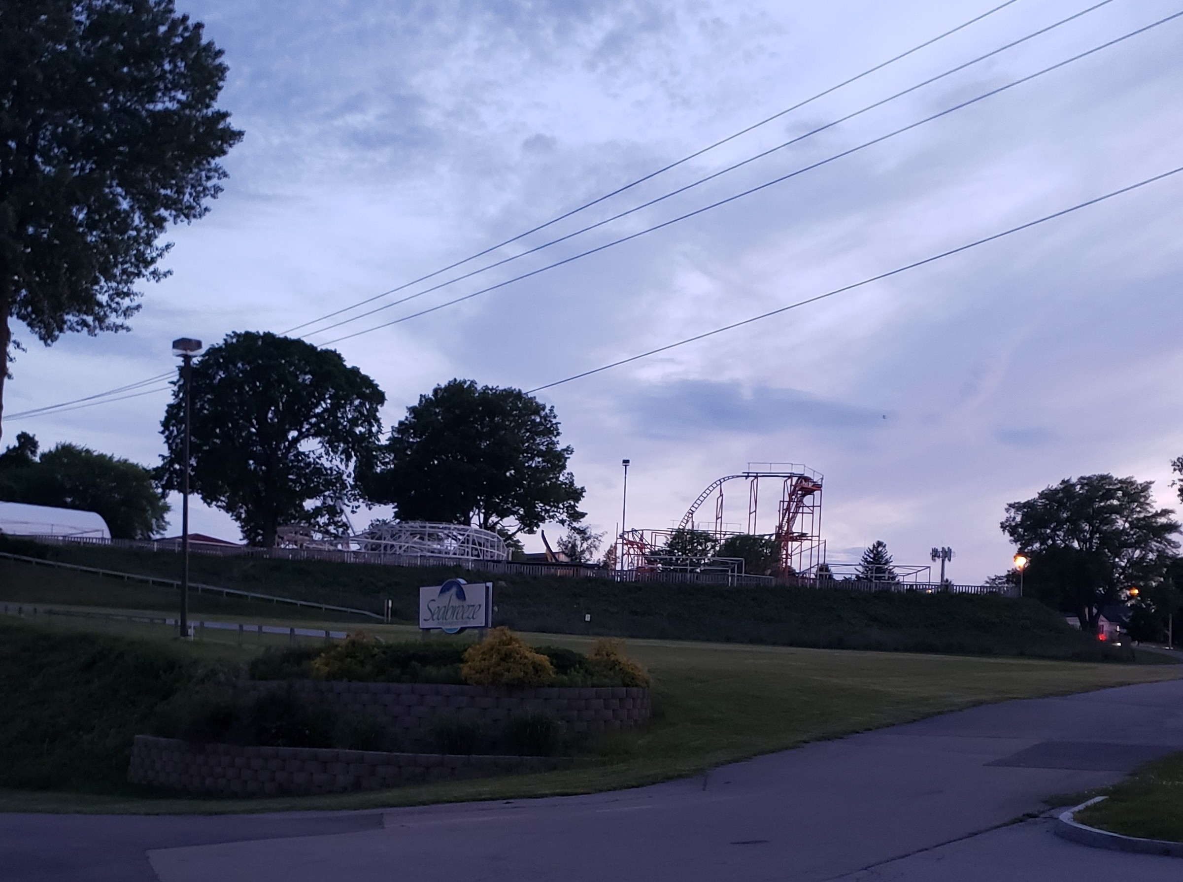 Shows the effect of the COVID-19 pandemic on amusement parks in New York State. As of June 4, Sea Breeze was still closed and opening date for 2020 is still undetermined